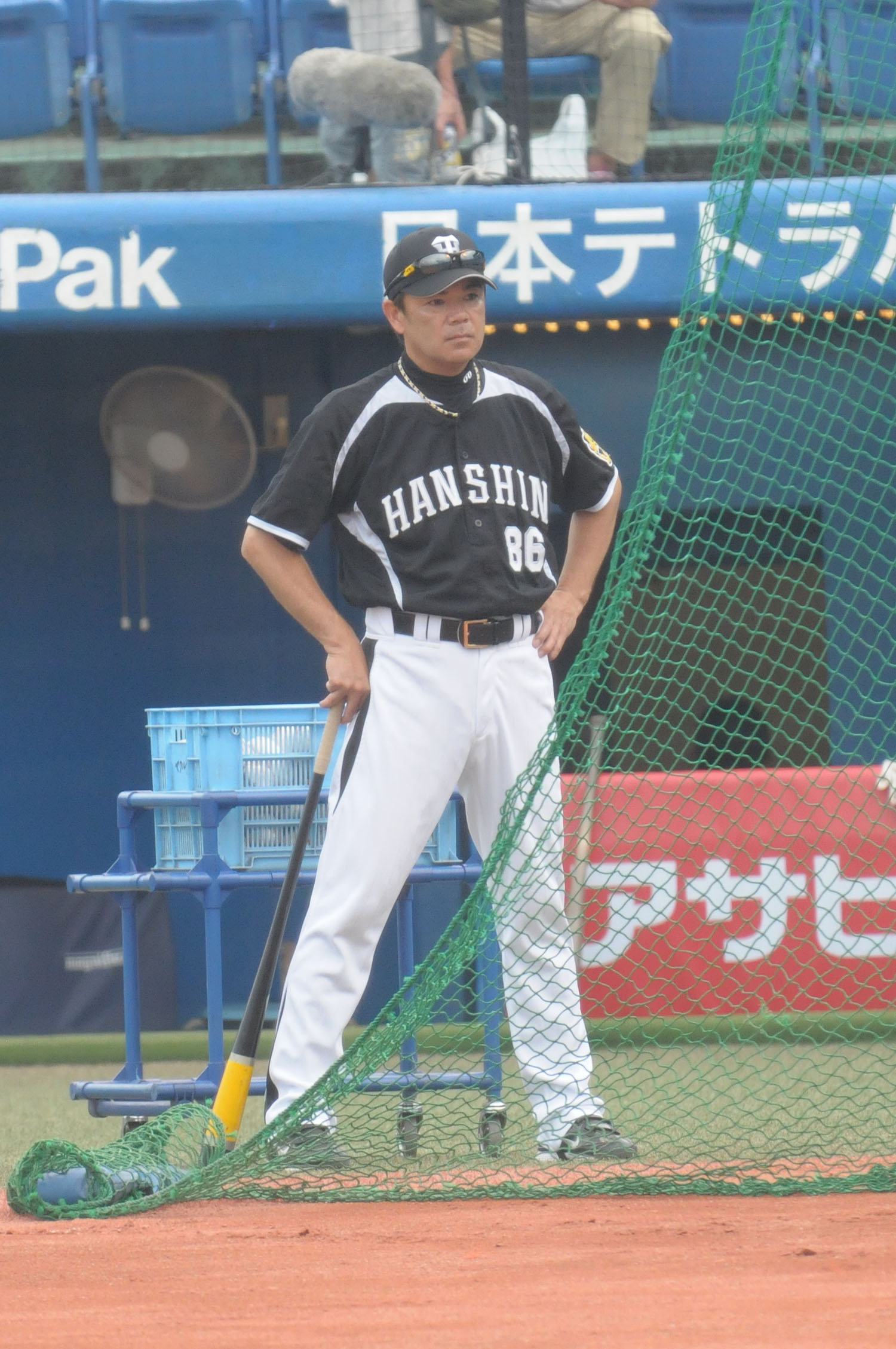 Yutaka Wada, manager of the Hanshin Tigers, at Meiji Jingu Stadium.